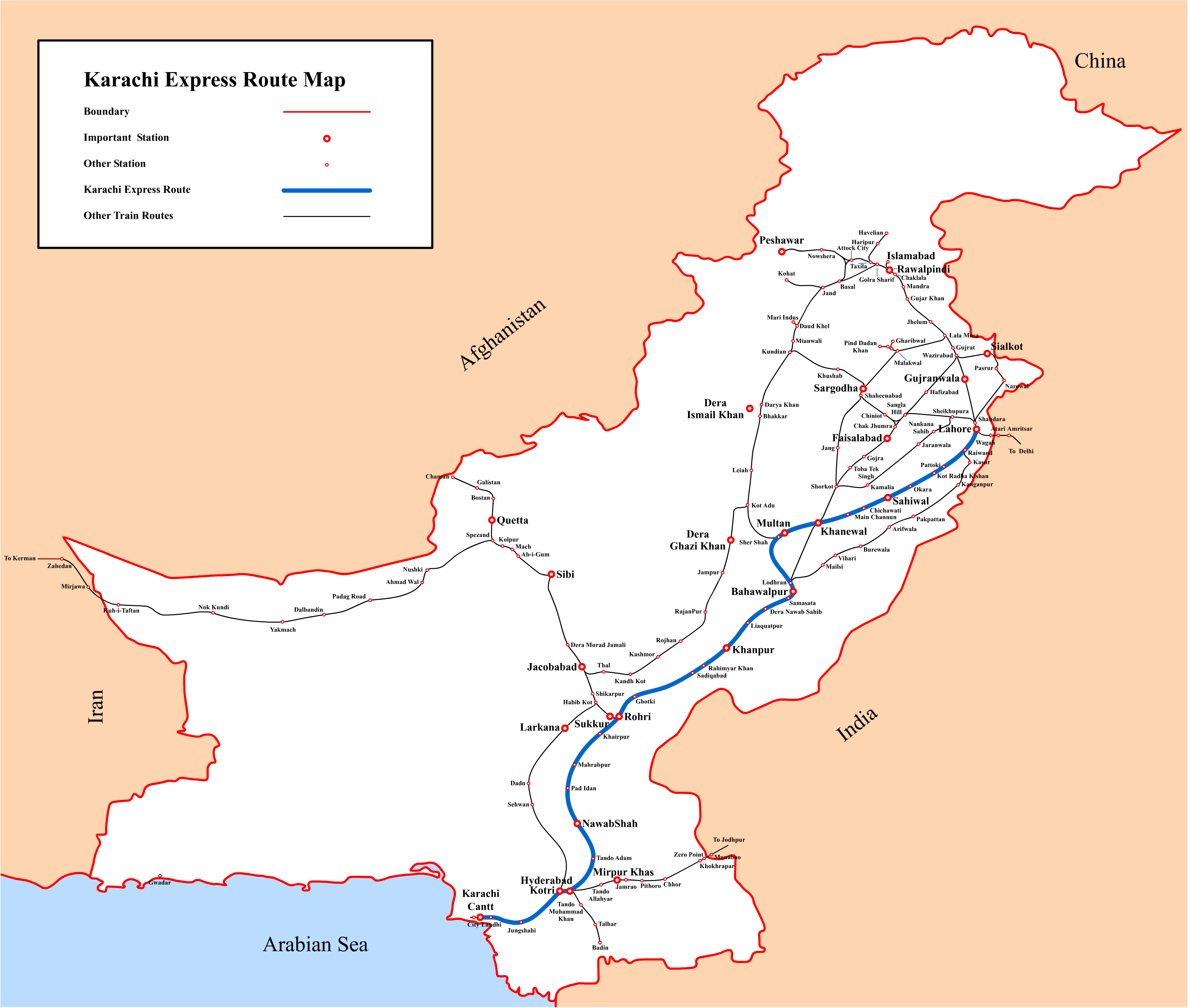 Karachi Express route map